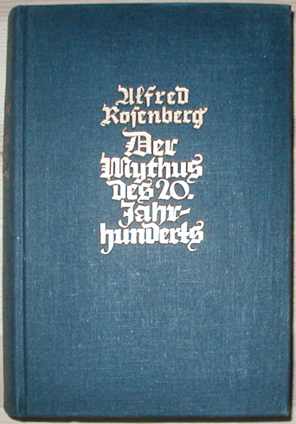 Book cover of "Der Mythus des 20. Jahrhunderts" by Alfred Rosenberg, 143rd - 146th edition, 1939